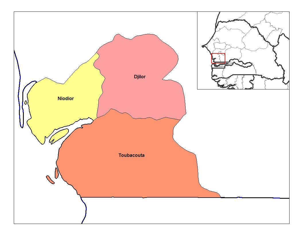 Map of the arrondissements of Foundiougne department in Senegal.